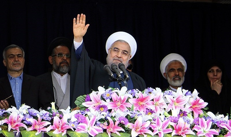 Iranian President during a visit of Semnan Province